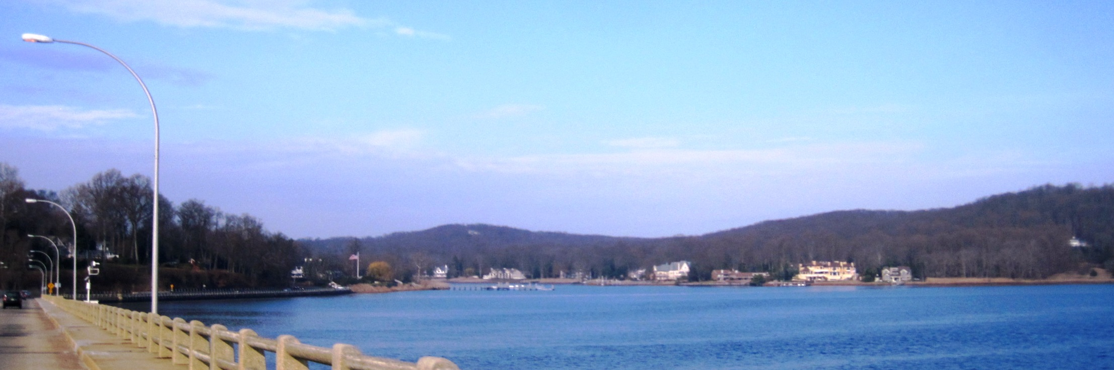 Photo of Locust Point, New Jersey, an unincorporated community within Middletown Township. Photo taken on the Oceanic Bridge looking north from County Route 8A.